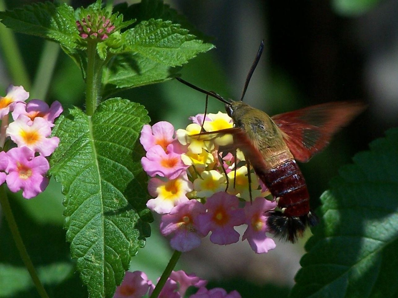 Hemaris thysbe (Hummingbird Clearwing Moth) photographed by Lonnie Huffman ([1]) in Columbia, SC on September 3, 2007. Species confirmed by Bill Oehlke. Sighting recorded by Bill Oehlke.